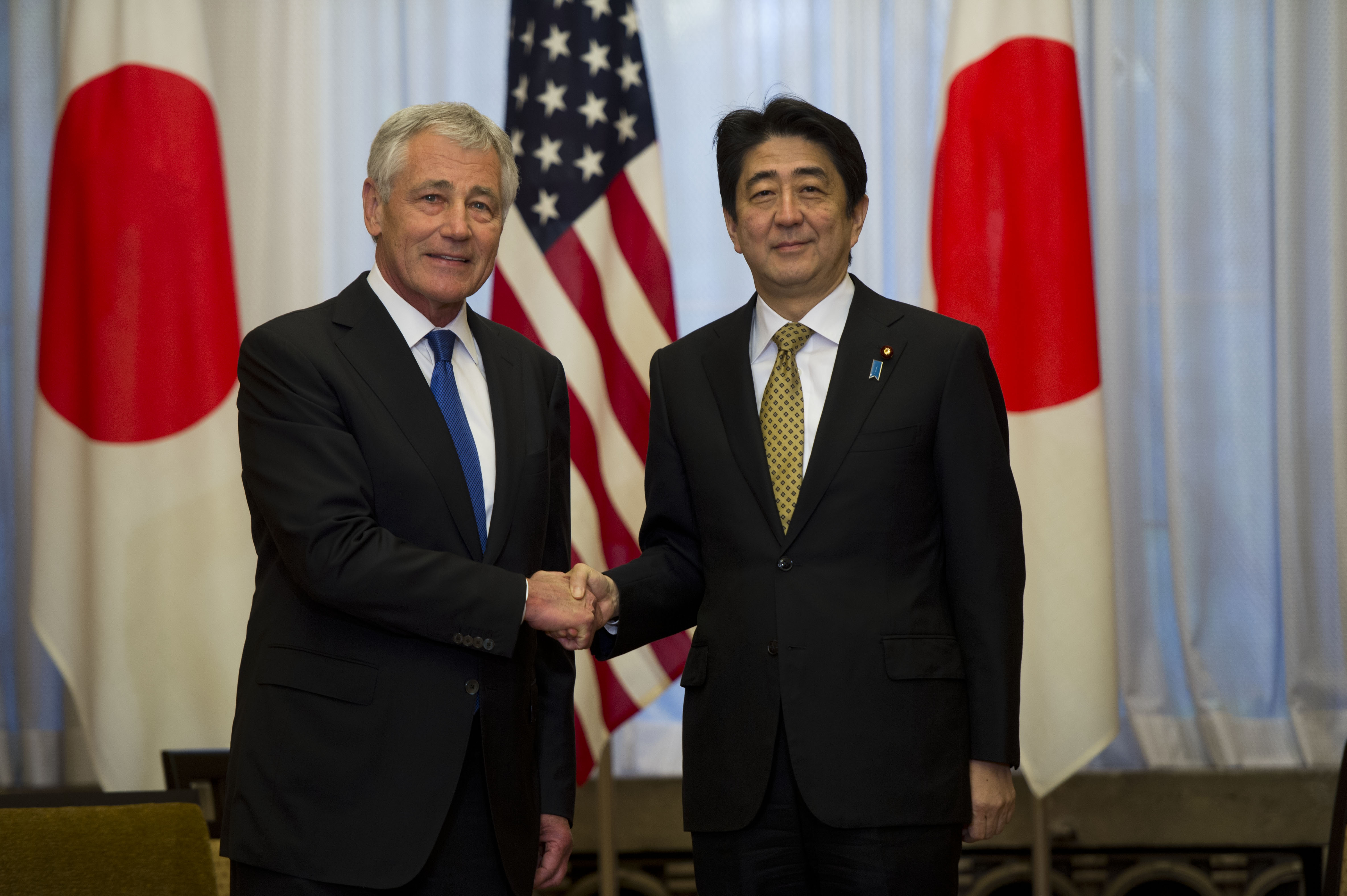 Secretary of Defense Chuck Hagel greets Japanese Prime Minister Shinzo Abe, at the Prime Ministers official residence Sori Daijin Kantei in Tokyo, Japan April 5, 2014. Hagel and the Prime Minister met to discuss issues of mutual importance. DoD Photo by Erin A. Kirk-Cuomo (Released)